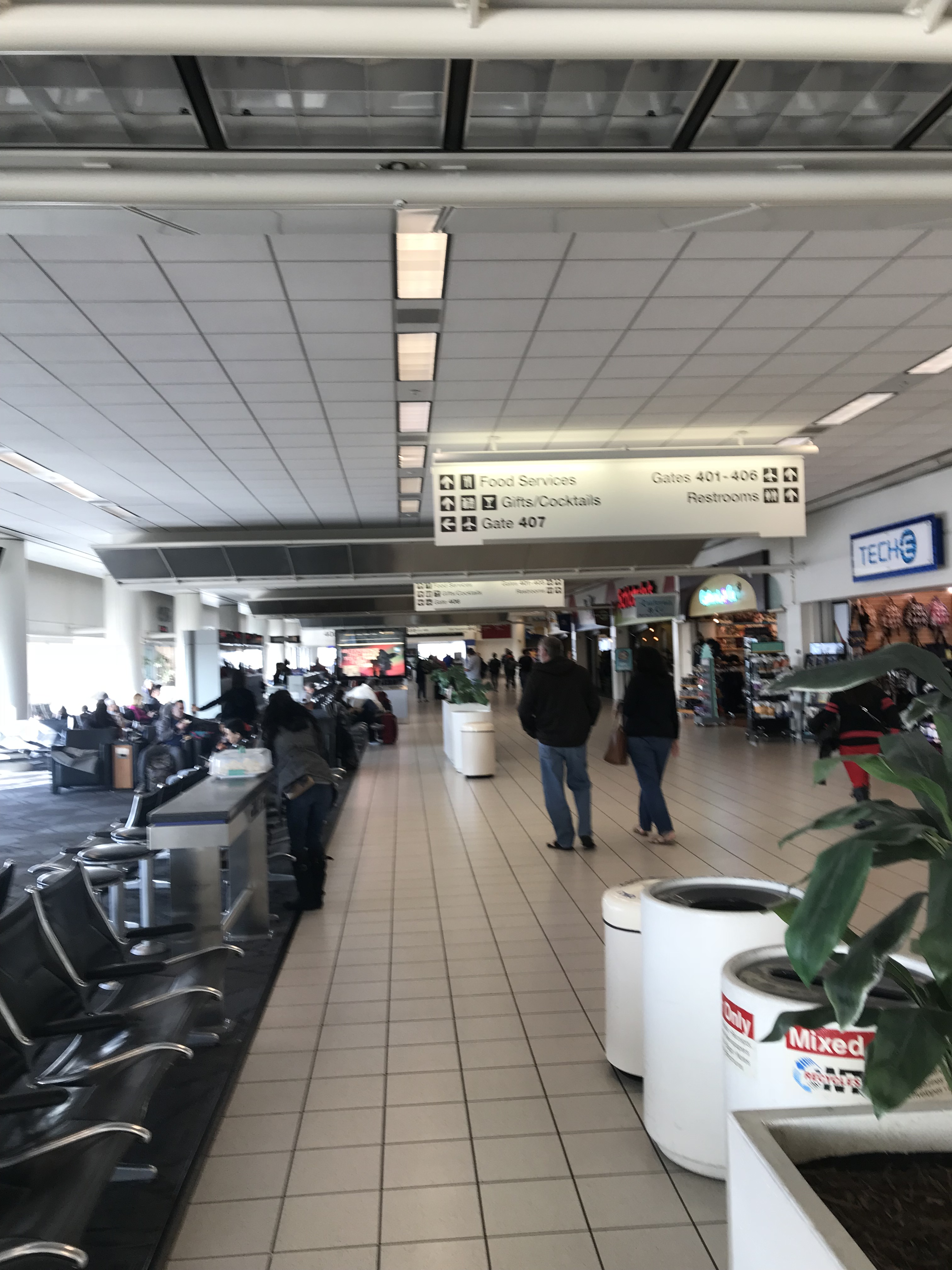 中文（香港）: Waiting area at ONT T4